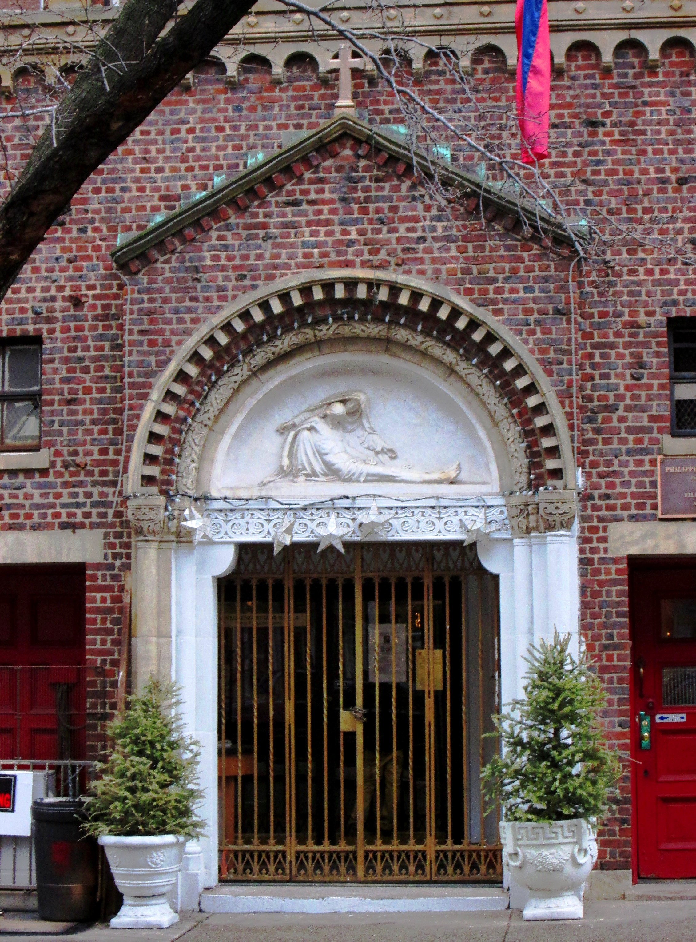 The Most Holy Crucifix Roman Catholic Church at 378 Broome Street between Mott and Mulbery Street in the Nolita neighborhood of Manhattan, New York City was built in 1926 and was designed by Robert J. Reilly. The mostly Italian parish was founded in 1925. (Source: From Abyssinian to Zion (2004))